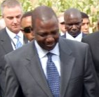 Kenyan Minister of Agriculture William Ruto